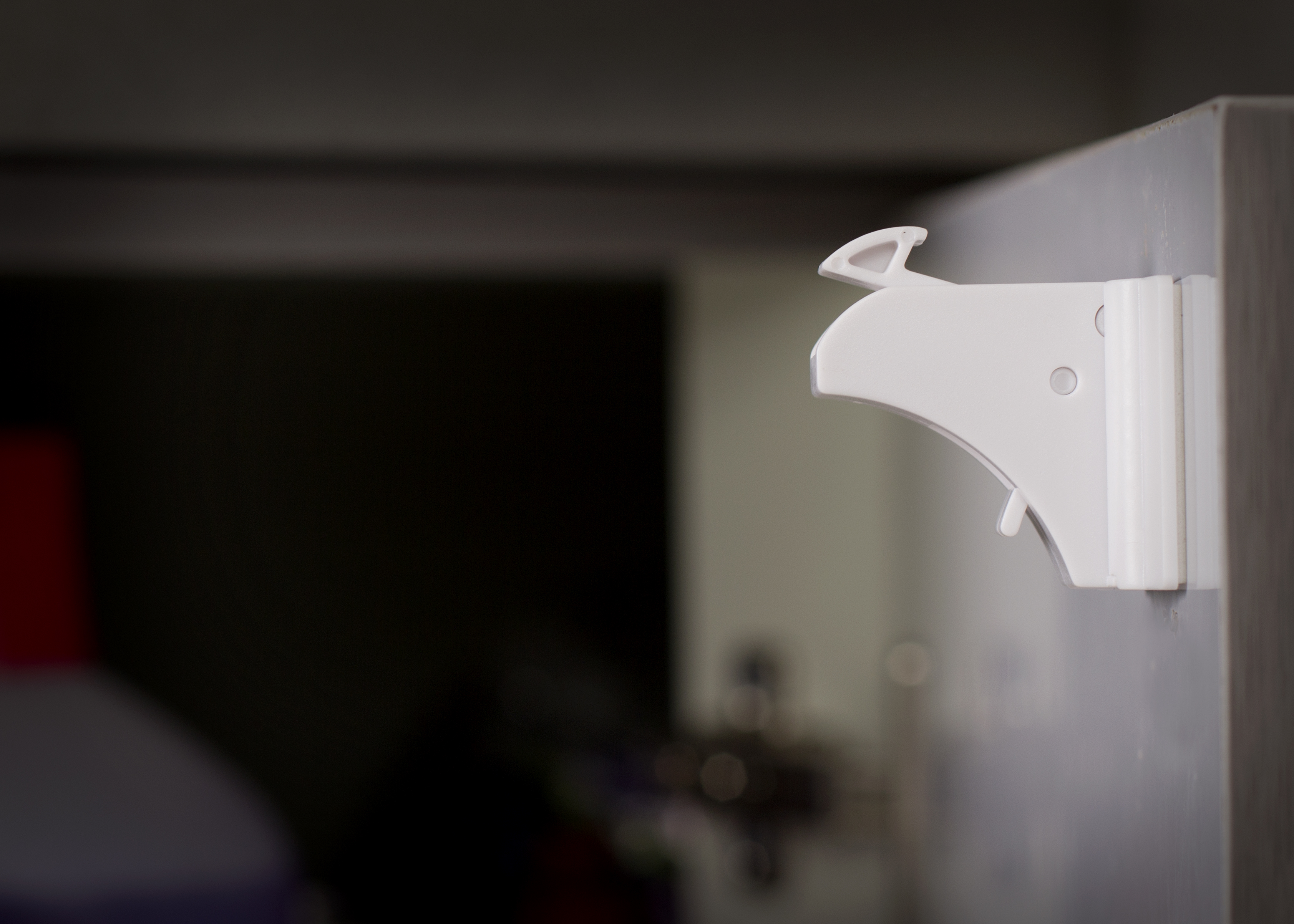 Magnetic safety lock stuck inside a cabinet door